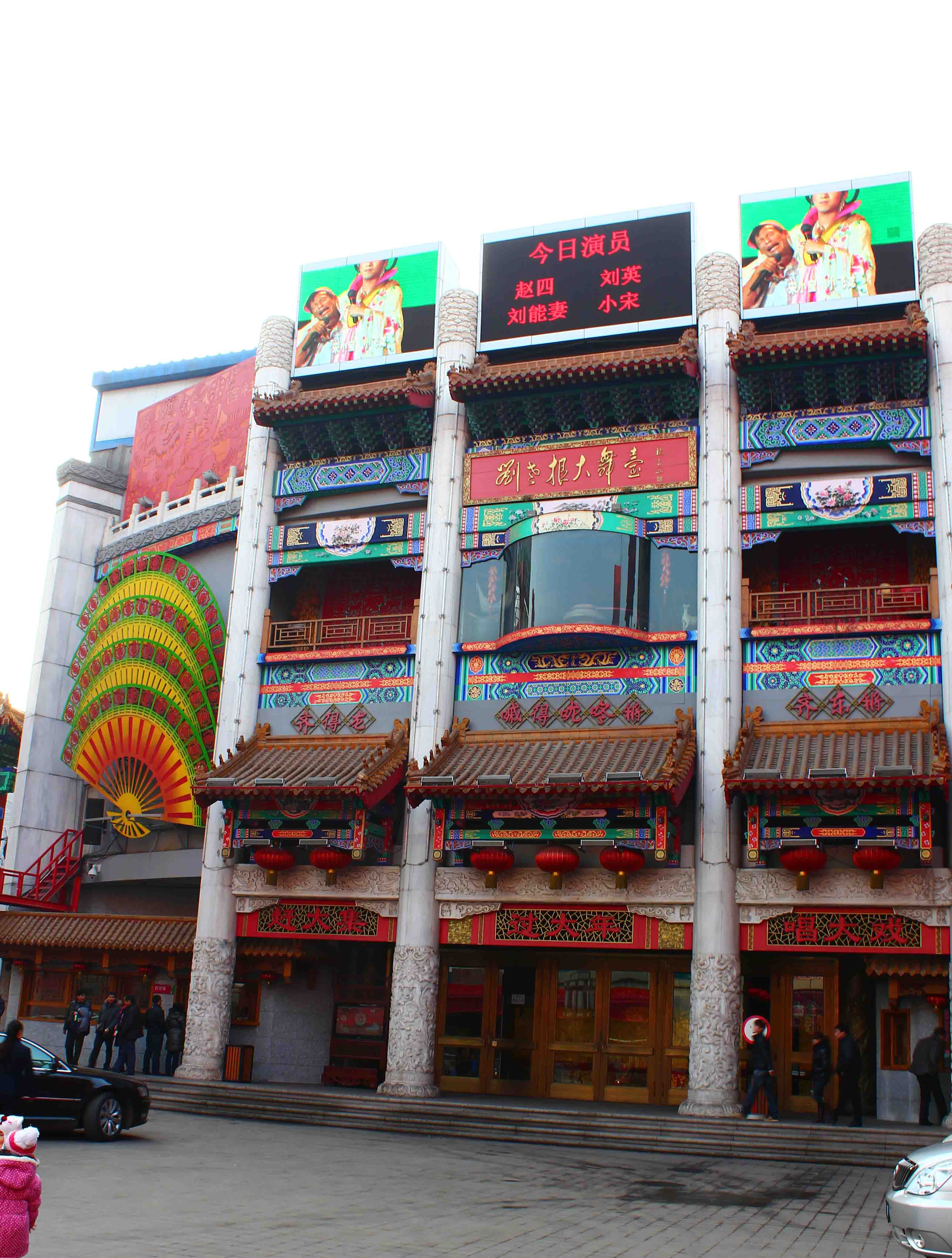 Liu Laogen Grand Stage in Shenyang